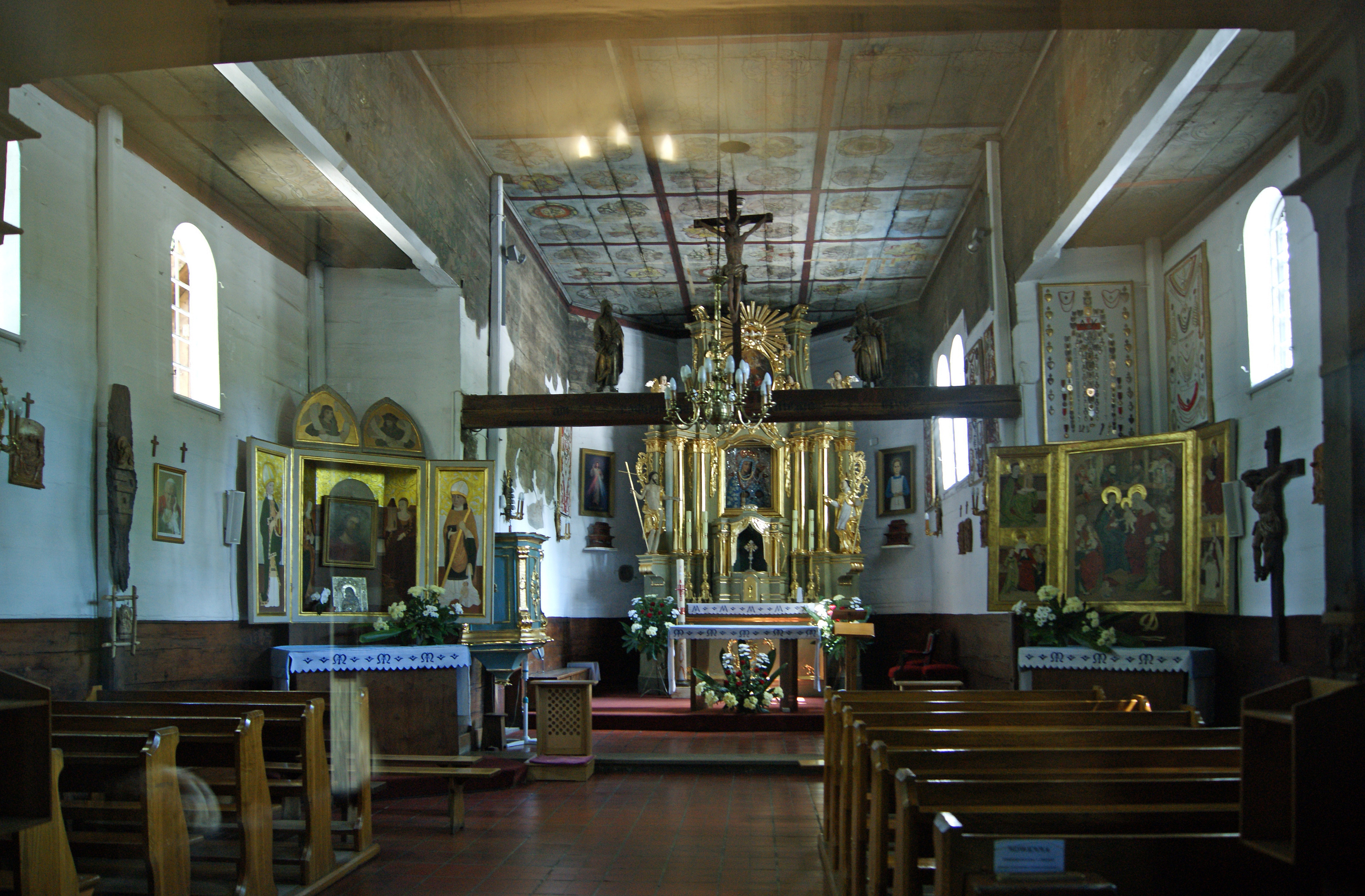 Assumption of the Virgin Mary Church (interior), 1 Najświętszej Panny Marii street, City of Tarnów, Poland